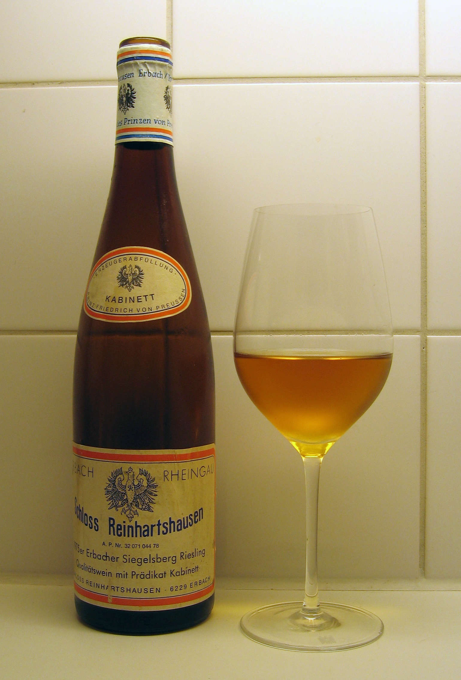 A German Riesling Kabinett of the 1975 vintage (produced by Prince Frederick of Prussia, Schloss Reinhartshausen in Erbacher Siegelberg vineyard in Rheingau), served at 32 years of age